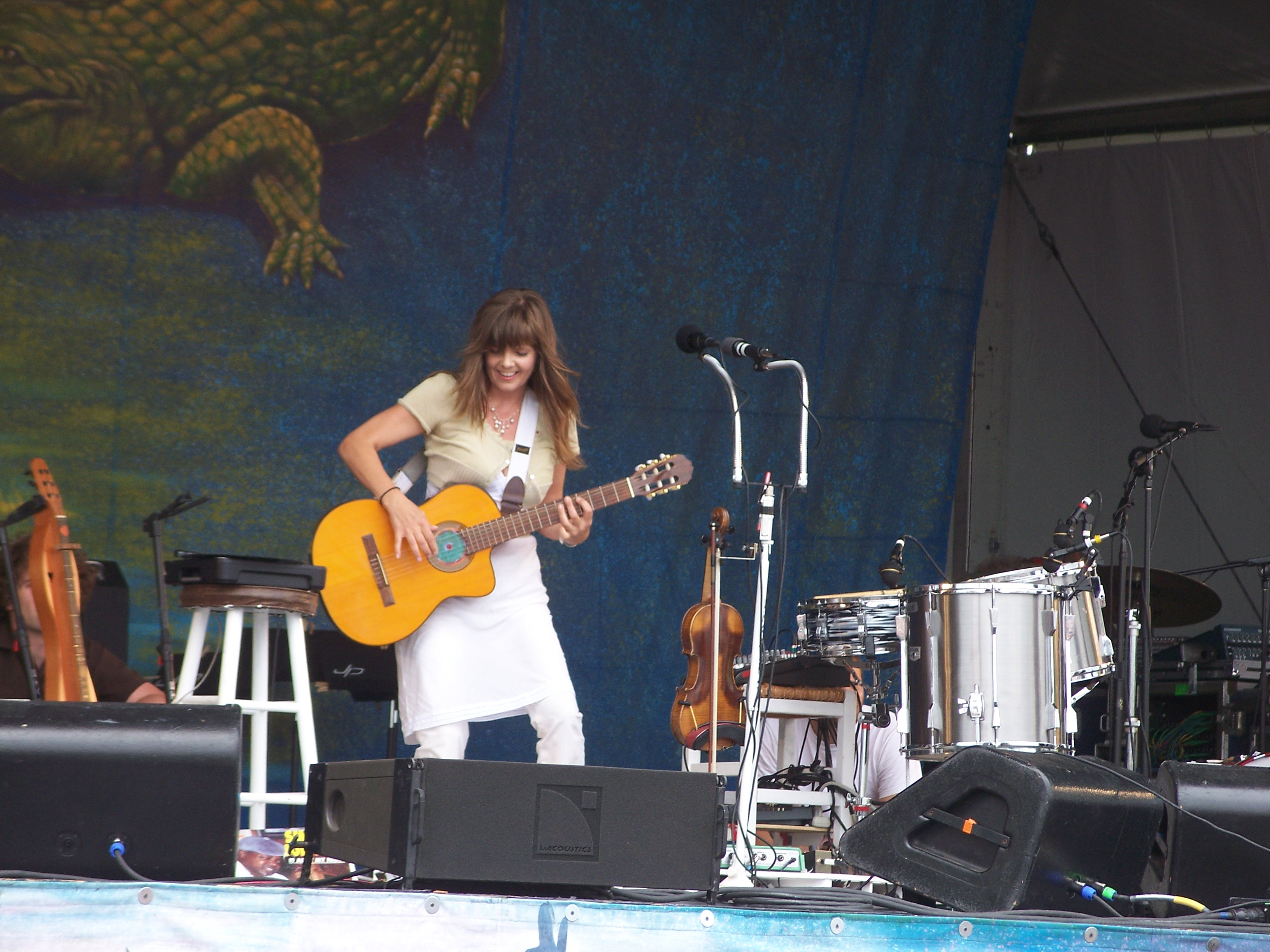 Theresa Andersson performs at the New Orleans Jazz and Heritage Festival, 4/30/09.